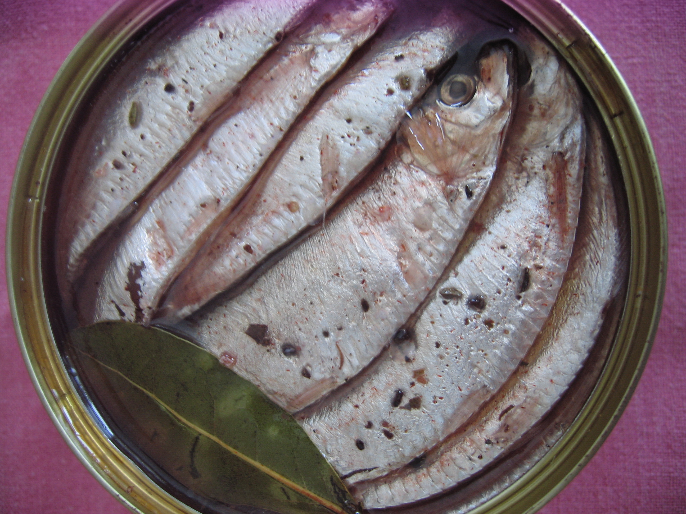 Ansjos i boks